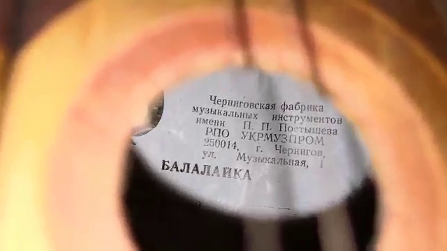 Inside of a 6-string balalaïka made in Chernihiv musical instruments factory. The text written in ukrainian reads: Черняговская фабрнка Музыквльных инструментов Именн П.П. Постышева РПО UKRMUZPROM 250014, г. Черннгов, уд, Музыкадвная БАЛАЛАЙКА Not show on this picture (rest of the text) : Артнкул 202 Прейскурант 077-02 Цена 6 р. 70к ОТК Цата выпуска ГОСТ 25956-83